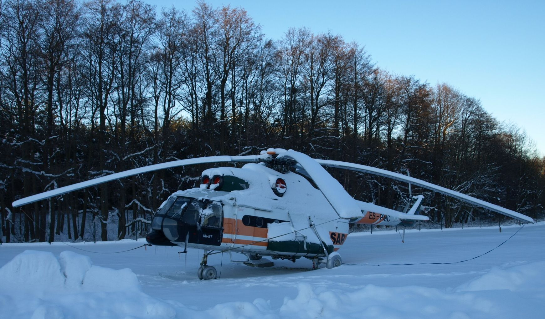 Mil Mi-8T of Estonian Border Guard